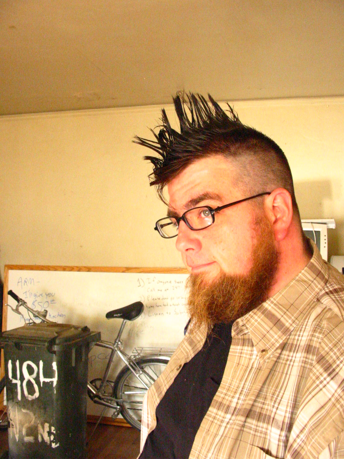 Self portrait of slam poet Mighty Mike McGee with mohawk, taken at home in San Jose, California